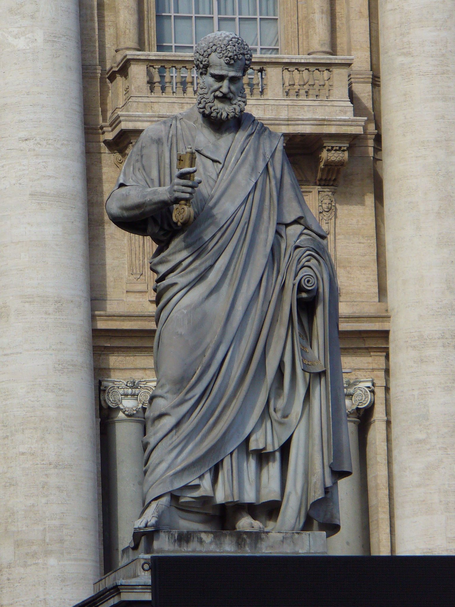 Statue of Saint Peter on Saint Peters square, Rome